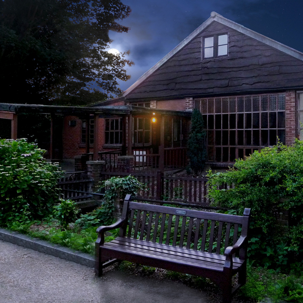 The outside of the Brookside Theatre